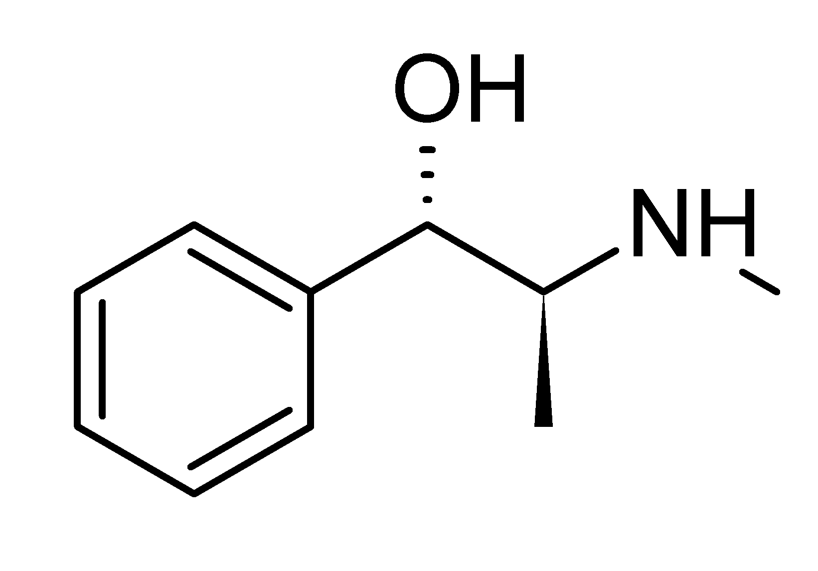 Correct structure of (+)-pseudoephedrine, i.e. (+)-(1S,2S)-ephedrine. The International Nonproprietary Name pseudoephedrine refers to this form. Created in ChemDraw.